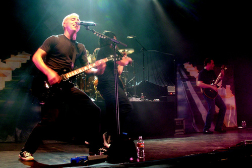 Yellowcard playing live in October in support of their third Capitol Records album "Paper Walls"